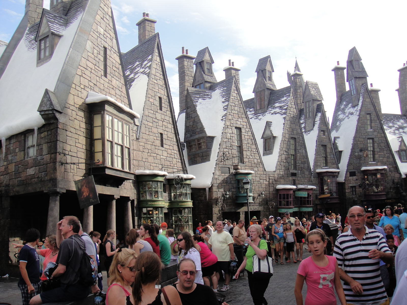 Wizarding World of Harry Potter - Hogsmeade crowds